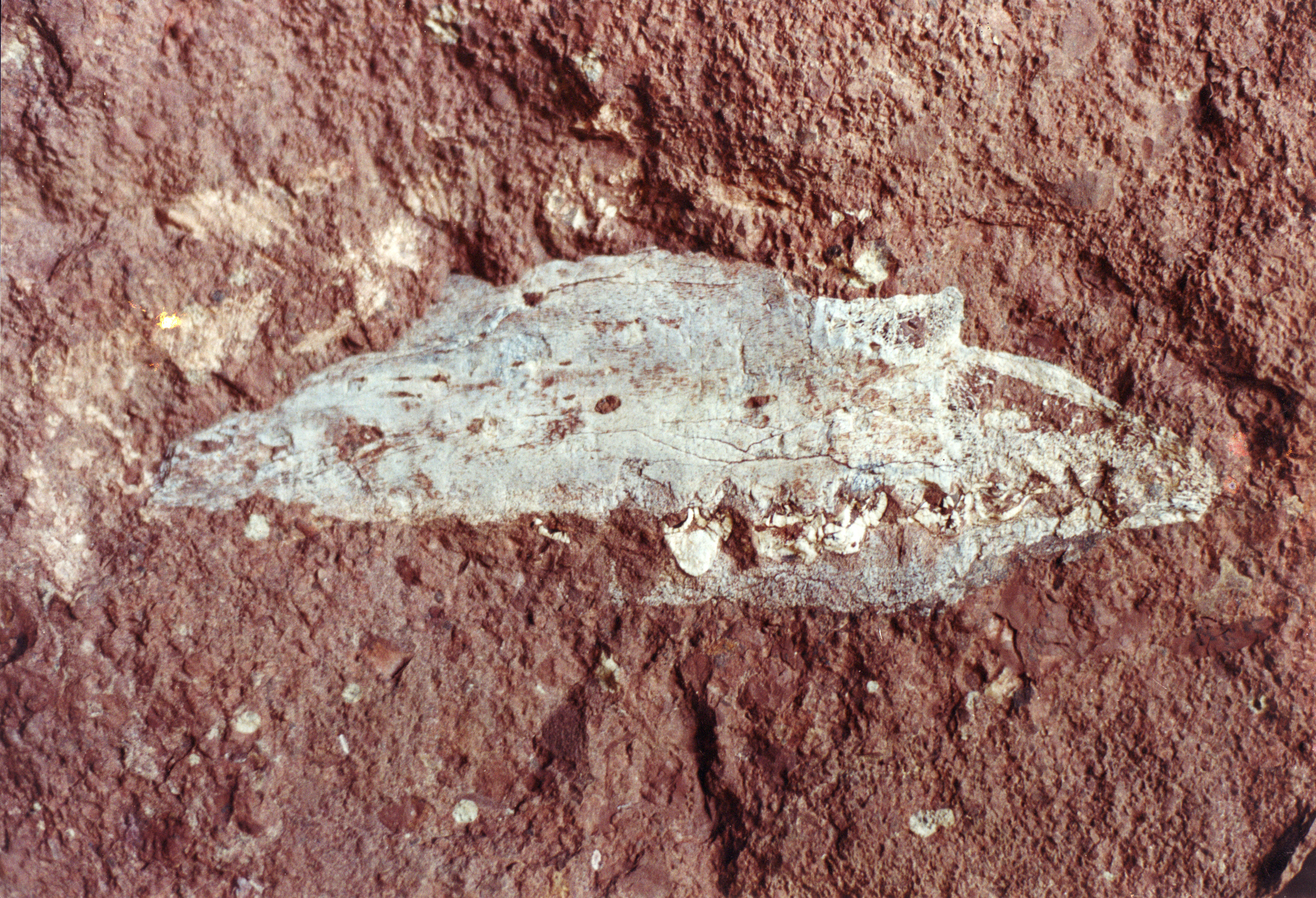 Left maxillary of Siamodon nimngami before restored